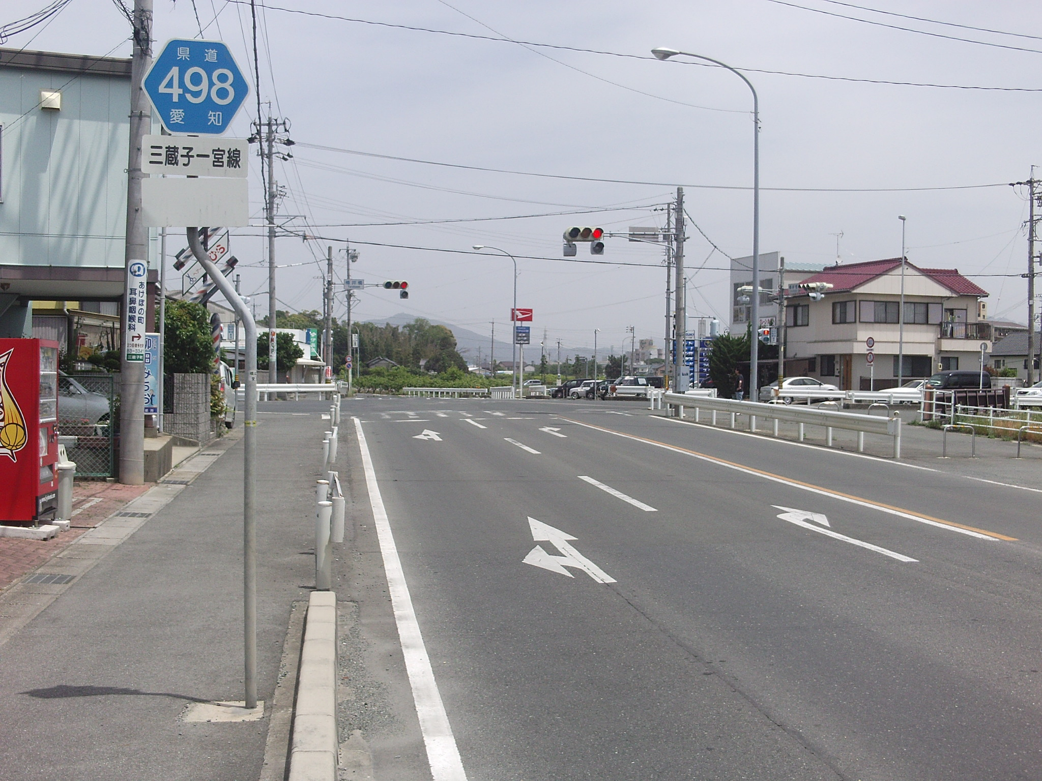 Aichi prefectural road No.498 in Sanzougocho, Toyokawa, Aichi.